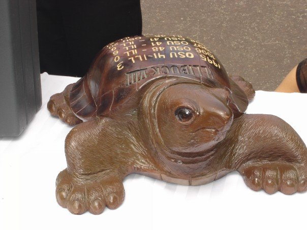 Illibuck Trophy - for the winner of the footballgame between Ohio State - Illinois